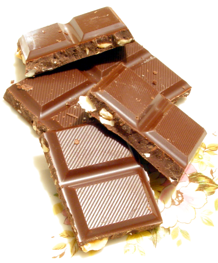 Chocolate with nuts